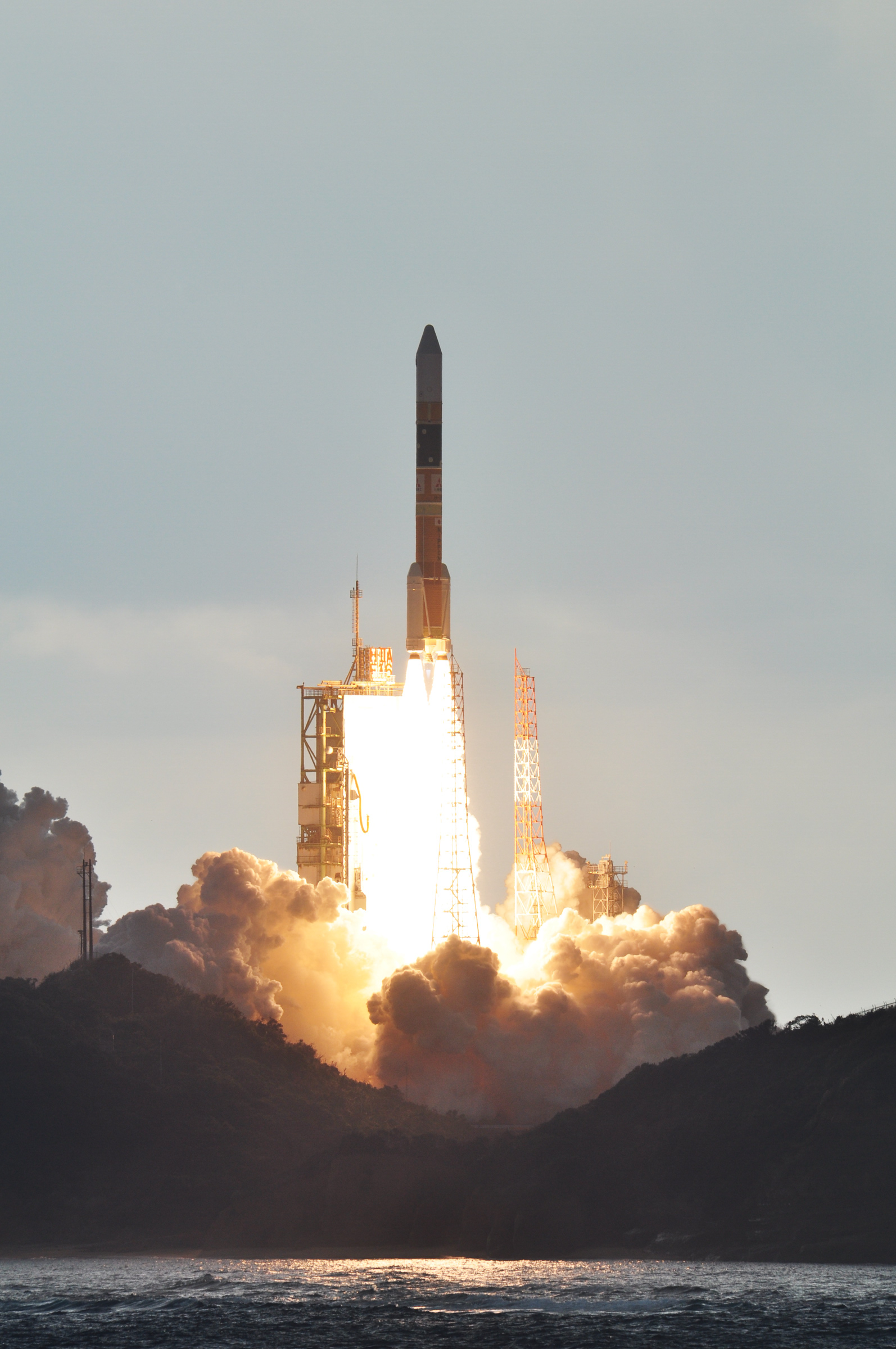 H-IIA Launch Vehicle Flight 16, launching Information Gathering Satellite (IGS) Optical 3.